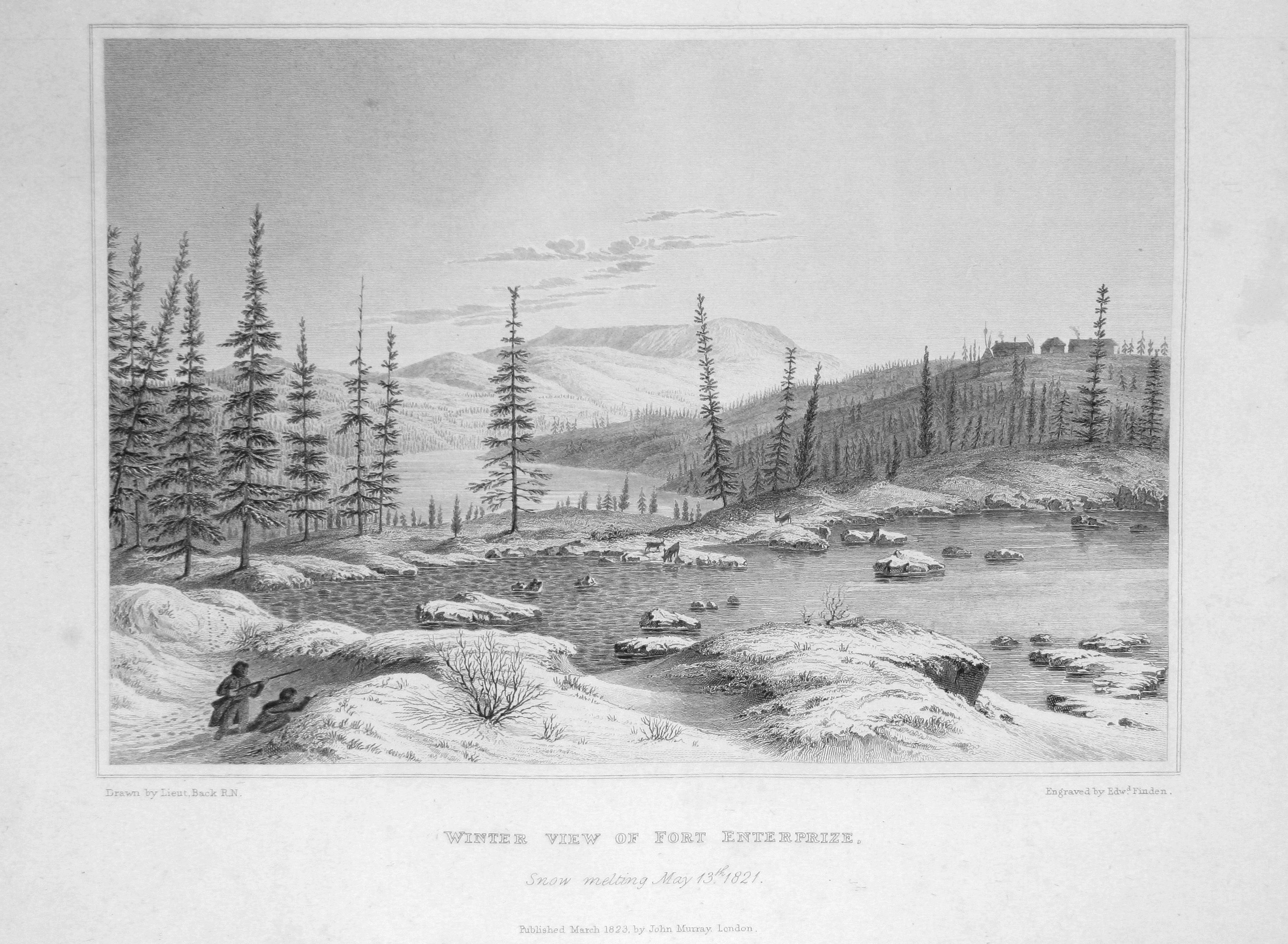 John Franklin's first expedition (from Gray (France) Librairy book : Sir John Franklin - Narrative of a Journey to the Shores of the Polar Sea in the Years 1819-22. London: John Murray. )